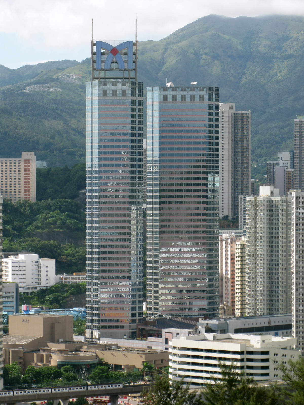 Metroplaza